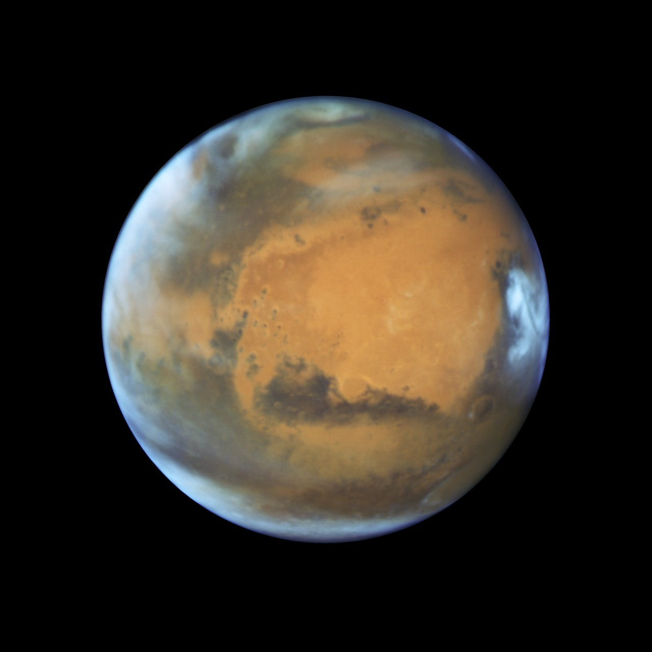 This image shows our neighbouring planet Mars, as it was observed shortly before opposition in 2016 by the NASA/ESA Hubble Space Telescope. Some prominent features of the planet are clearly visible: the ancient and inactive shield volcano Syrtis Major; the bright and oval Hellas Planitia basin; the heavily eroded Arabia Terra in the centre of the image; the dark features of Sinus Sabaeous and Sinus Meridiani along the equator; and the small southern polar cap.